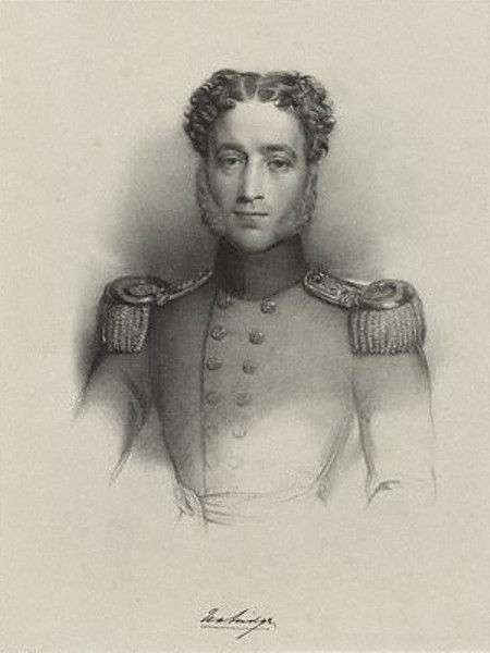 Portrait of Henry Paget, later 2nd Marquess of Anglesey, by Francis William Wilkin, after unknown artist